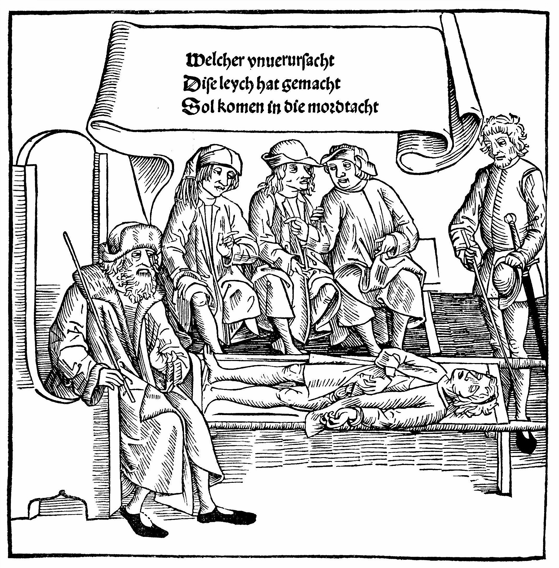 Whoever without cause / has made this dead body / shall be outlawed. Woodcut from the Criminal Code of Bamberg: The judge and the lay judges sit around a dead body and declare the perpetrator in absentia to be outlawed. On the right, the bailiff taps the stretcher with his staff.